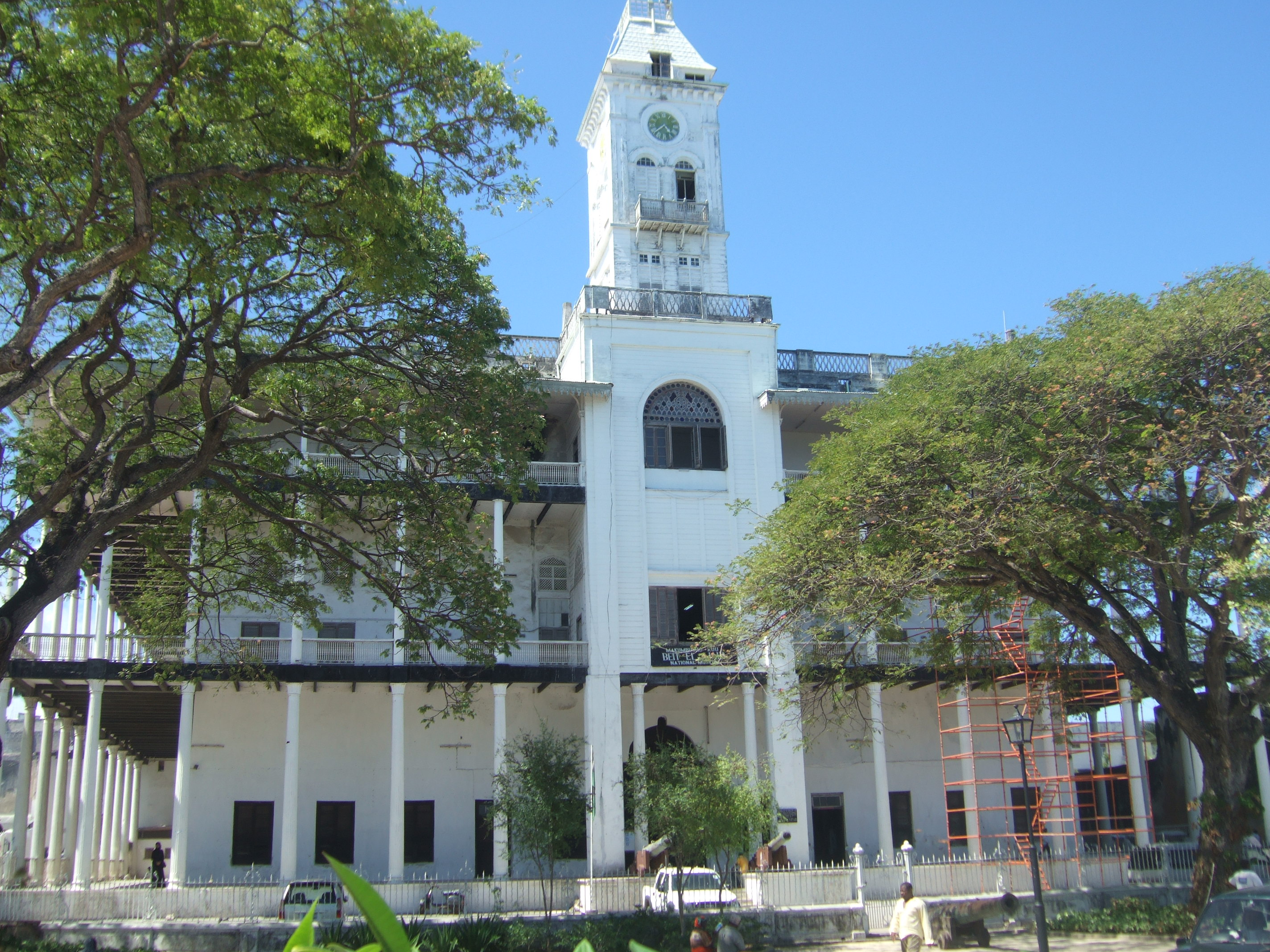 Exterior of the Palace Museum at Beit al Ajaib (House of Wonders) — in Stone Town, Category:Zanzibar City.